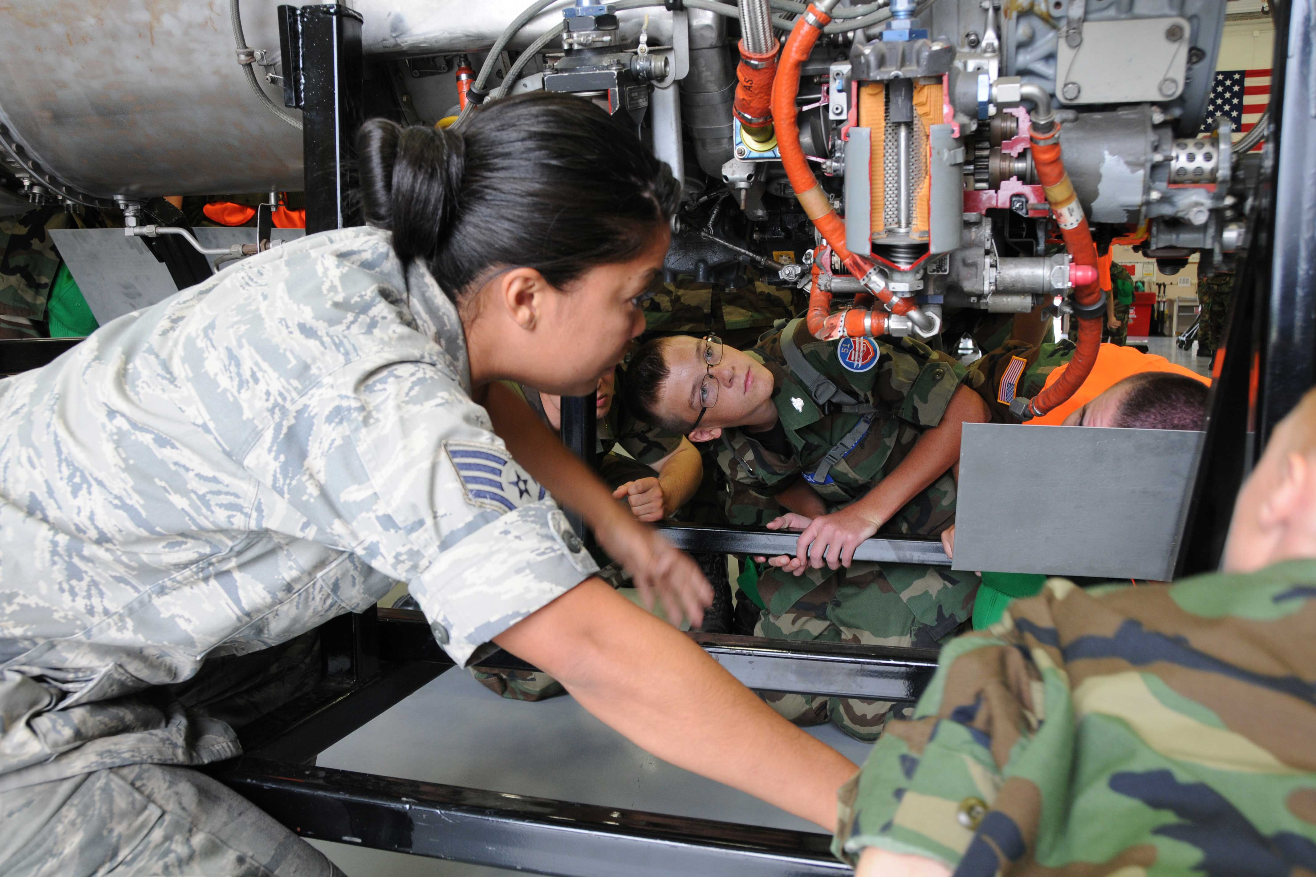 Ohio Wing CAP cadets in the engine shop